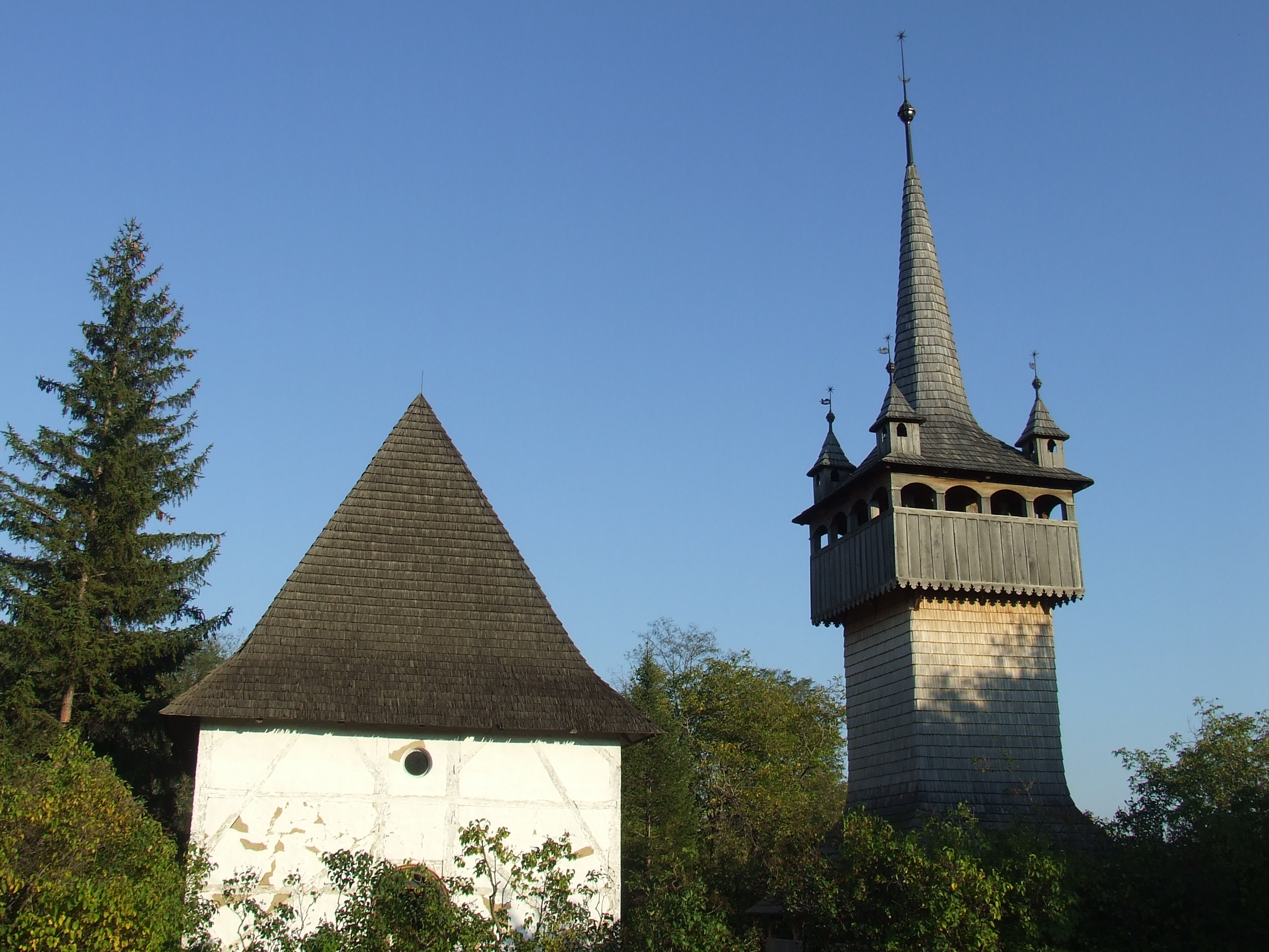 Szentendre, Skanzen